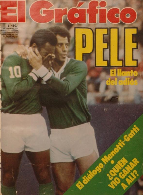 Pelé's farewell in Cosmos. In his side, Carlos Alberto Torres.